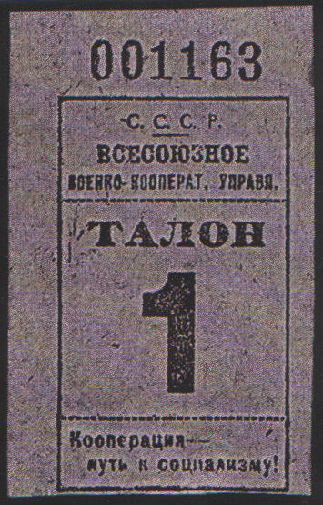 USSR military cooperative revenue stamp, 1929 (?).